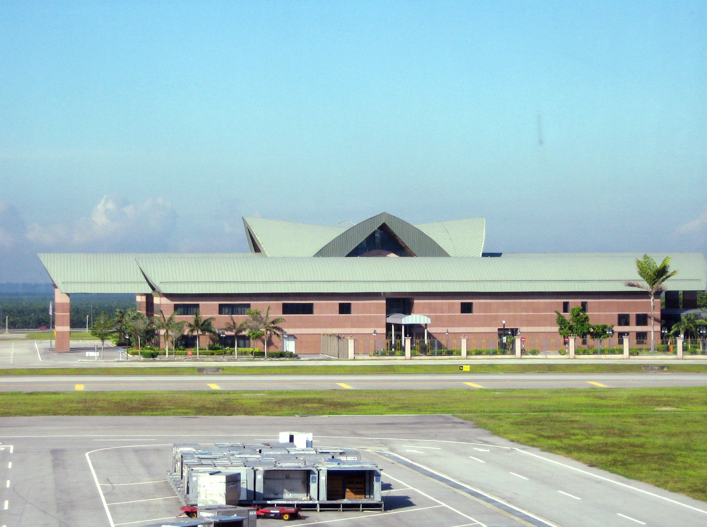 Bunga Raya, VIP-building at KLIA reserved for royalty and state guests.